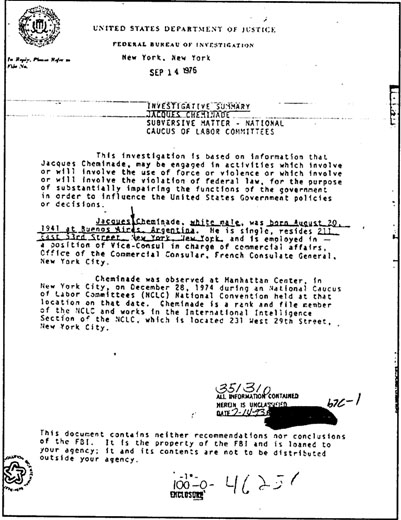 FBI letter describing Jacques Cheminade as a "rank and file member of the NCLC [who] works in the International Intelligence Section of the NCLC".